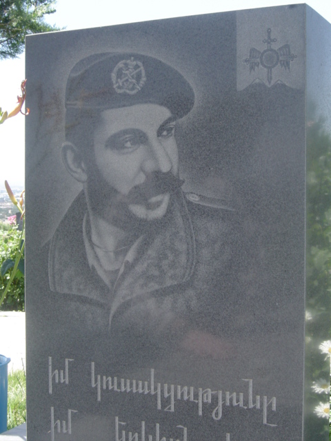 The grave of one of the heroes of the Nagorno-Karabakh conflict, Karo Qakhedjian, at Yerablur cemetery.